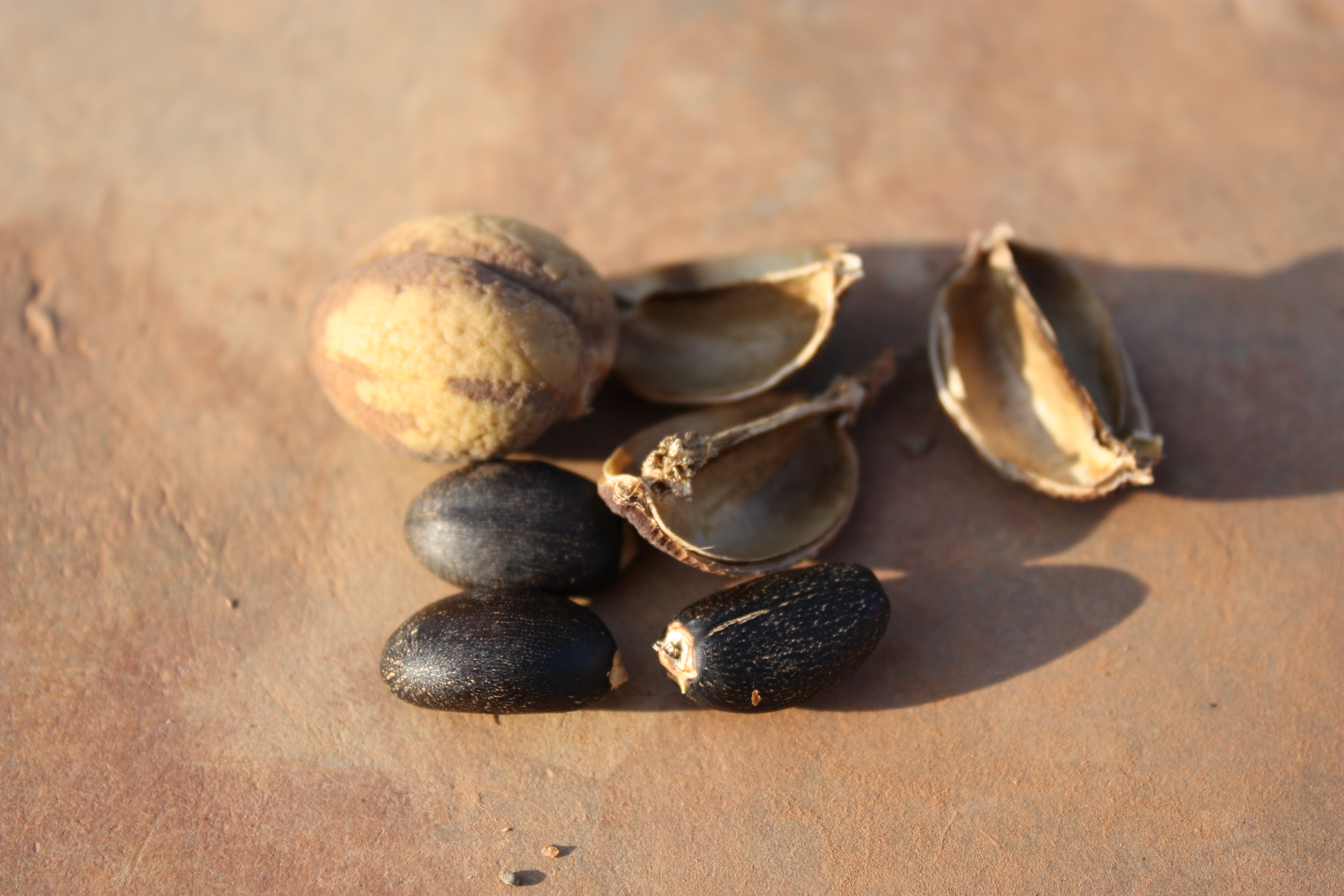 Fruits and seed of Jatropha curcas, Ouagadougou, Burkina Faso